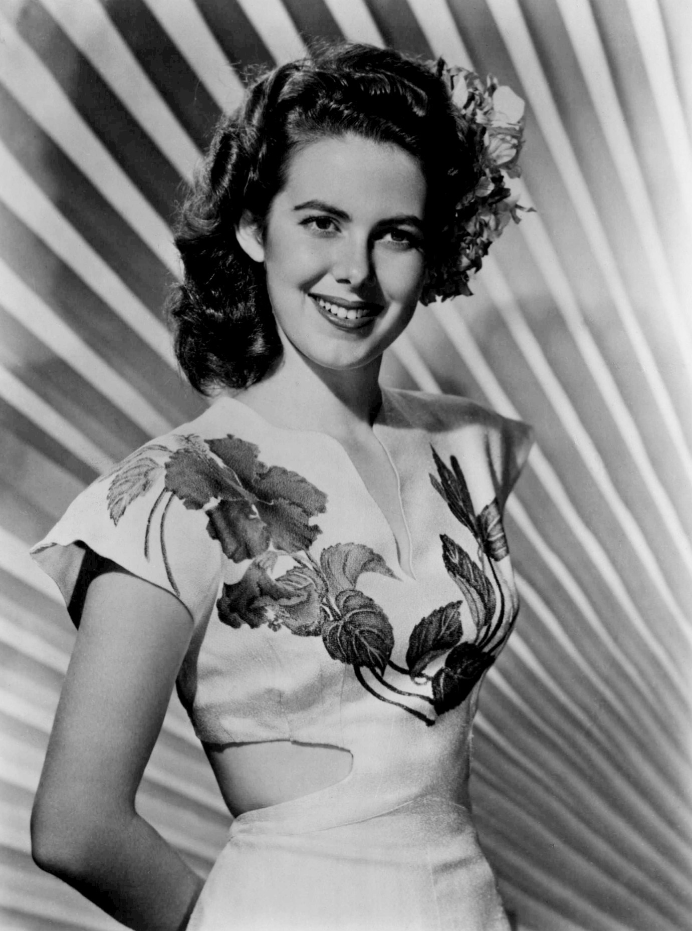 Photo of actress Vanessa Brown from an appearance on Lux Video Theatre.